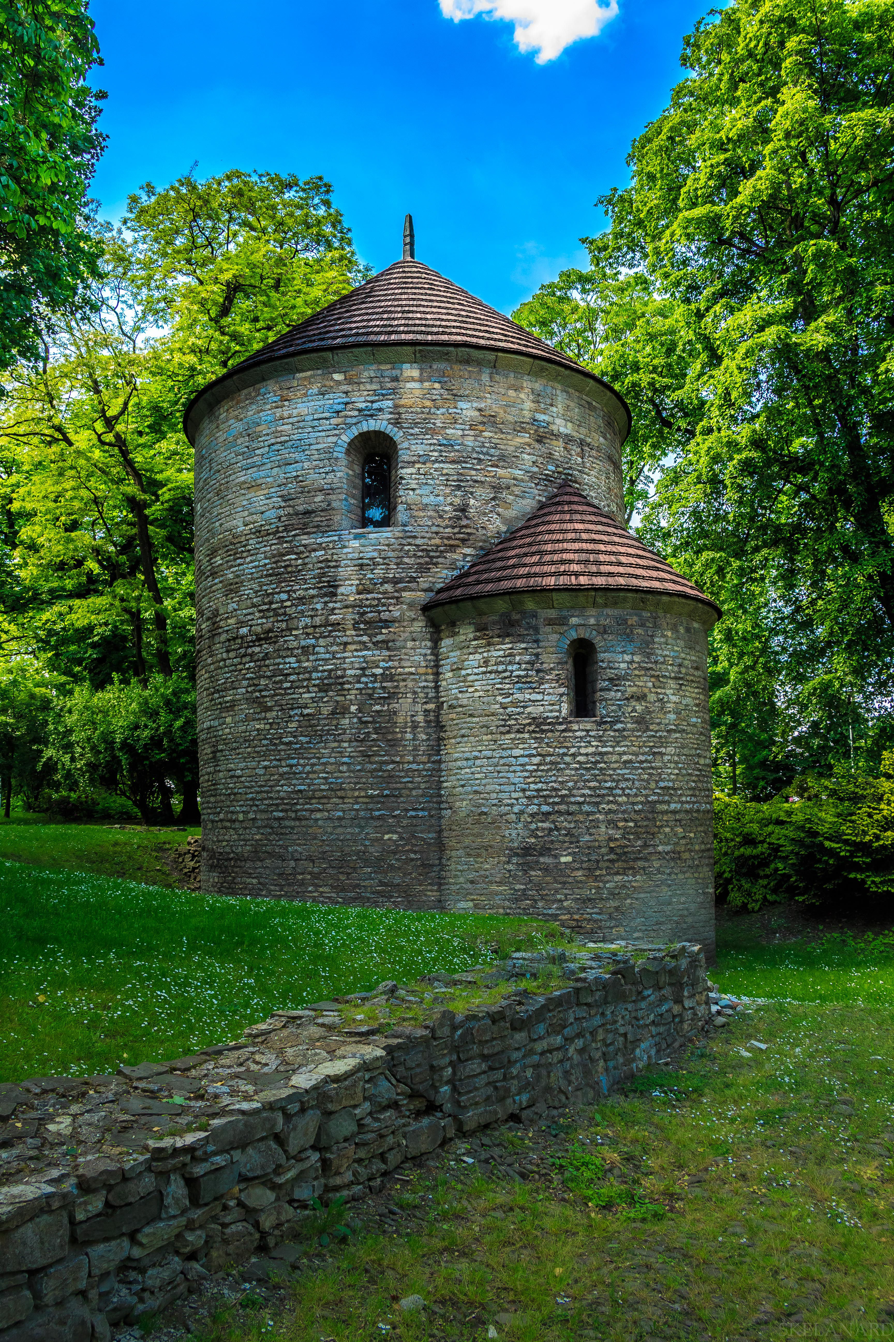 XI century Saint Nicholas rotunda church in Cieszyn, Poland